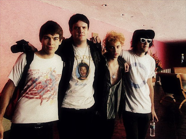 Klaxons